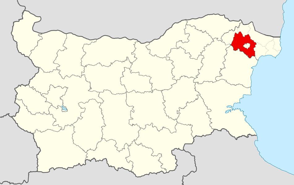 Location map of Dobrichka Municipality within Bulgaria and Dobrich Province. Equirectangular projection, N/S stretching 130 %. Geographic limits of the map: N: 44.4° N S: 41.1° N W: 22.1° E E: 28.9° E